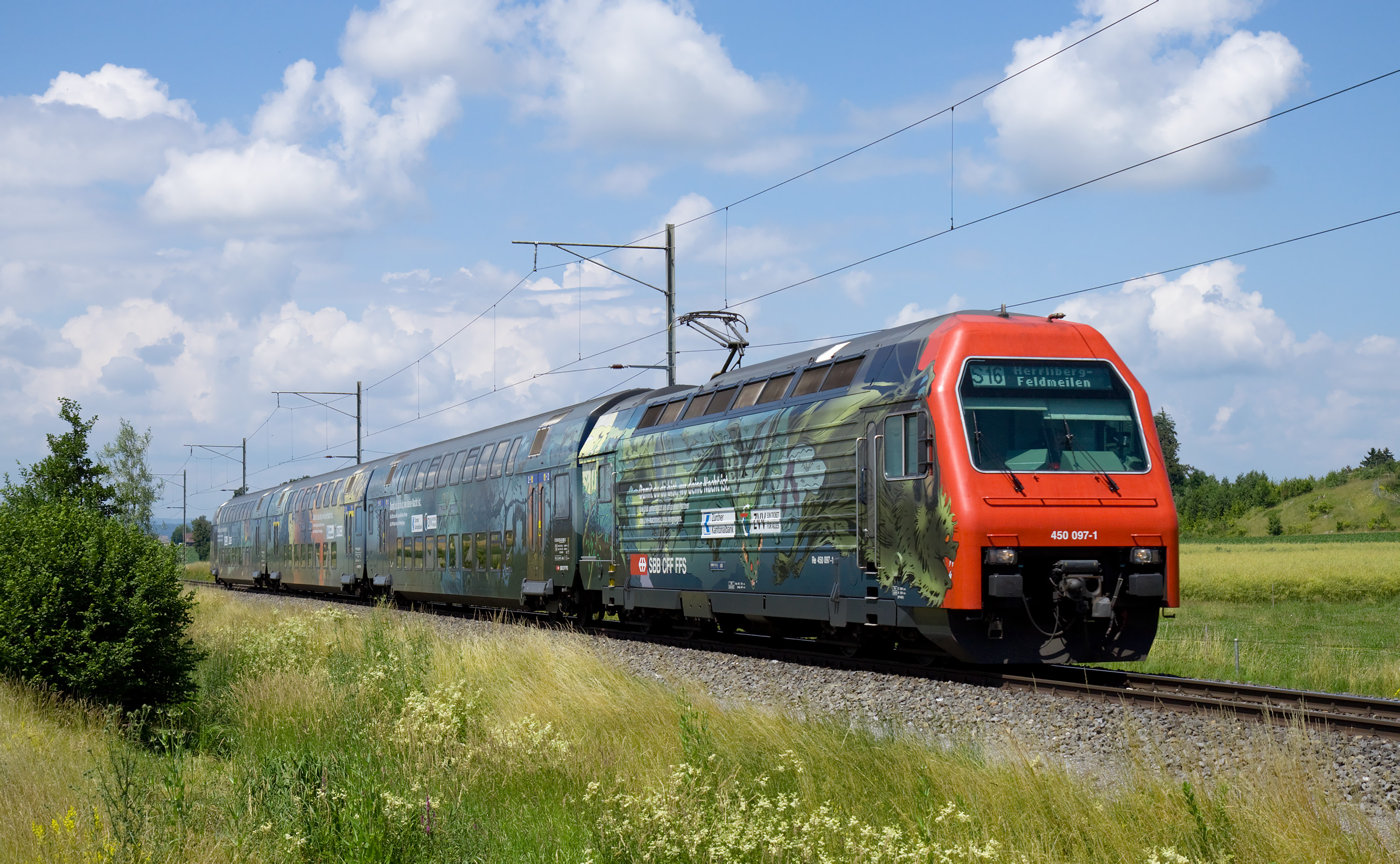 SBB-CFF-FFS Re 450 double-decker push-pull train on S-Bahn Zürich line S16 near Henggart. The whole train carries advertisement for the nighttime network of the Zürich S-Bahn, which is sponsored by ZKB (Zürcher Kantonalbank)